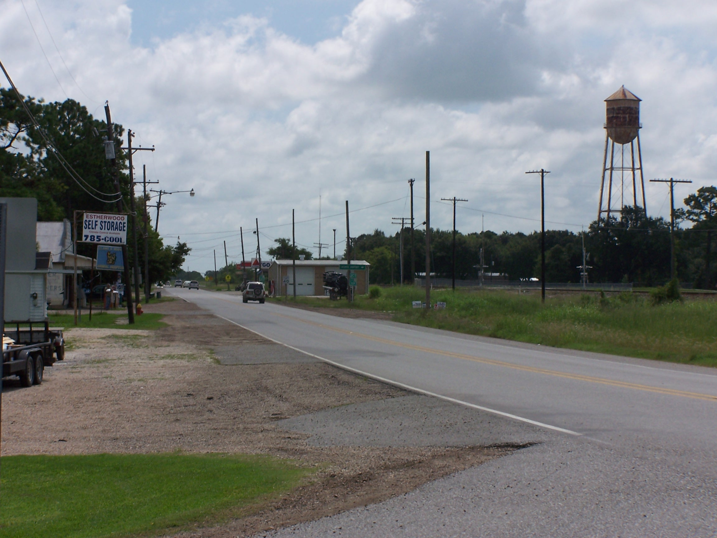 Depicted place: Estherwood